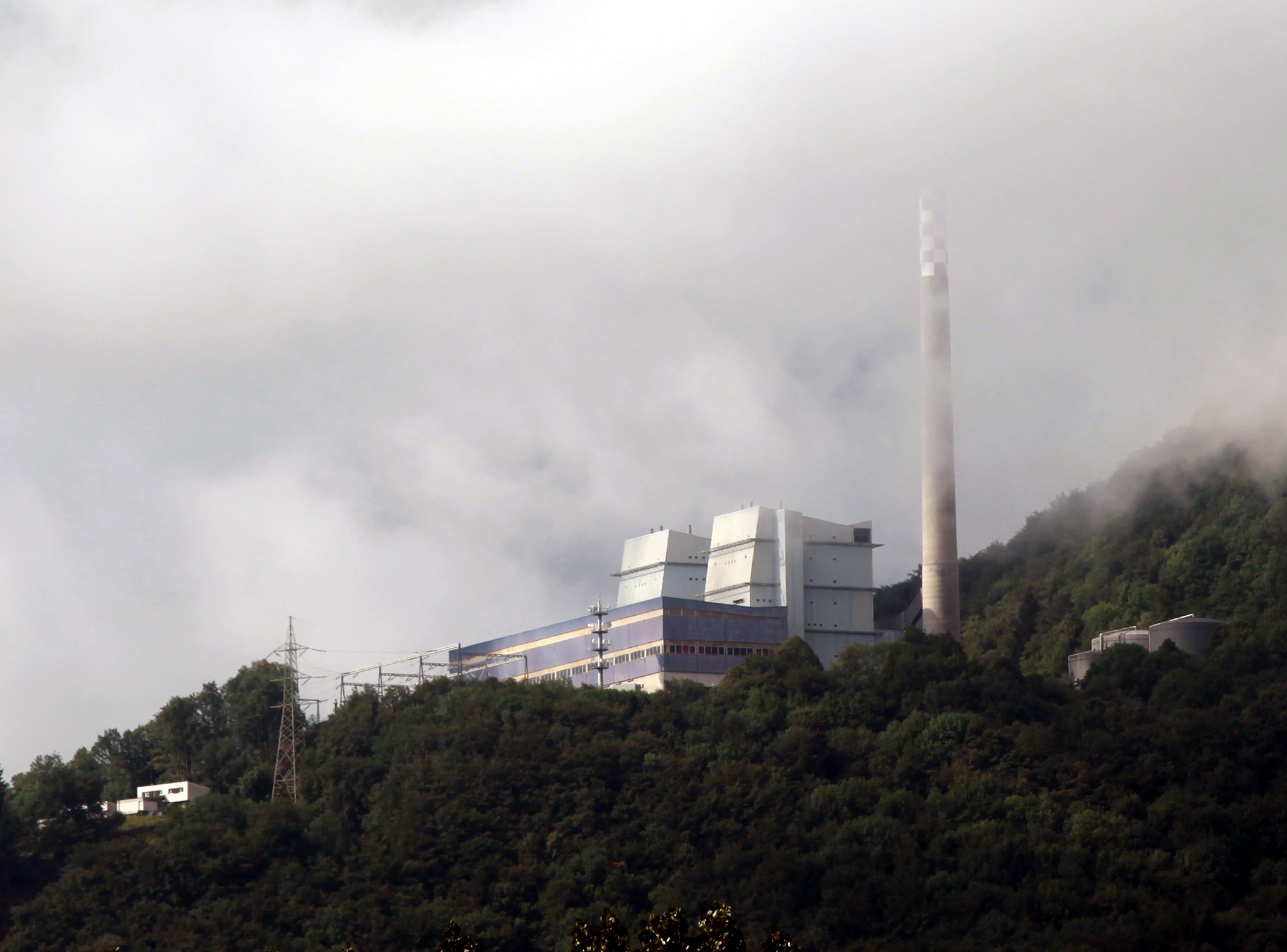 The abandoned power plant Chavalon (Centrale Thermique de Vouvry) close to Vouvry (Switzerland).